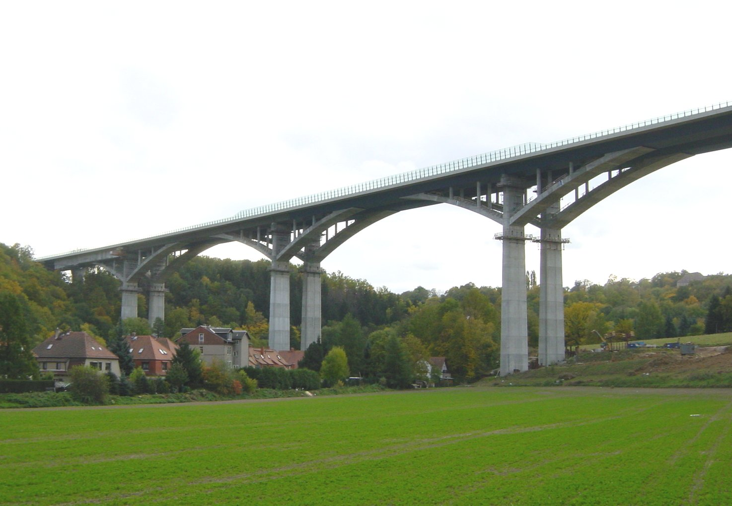 The Lockwitztal bridge at the Autobahn 17 near Dresden.